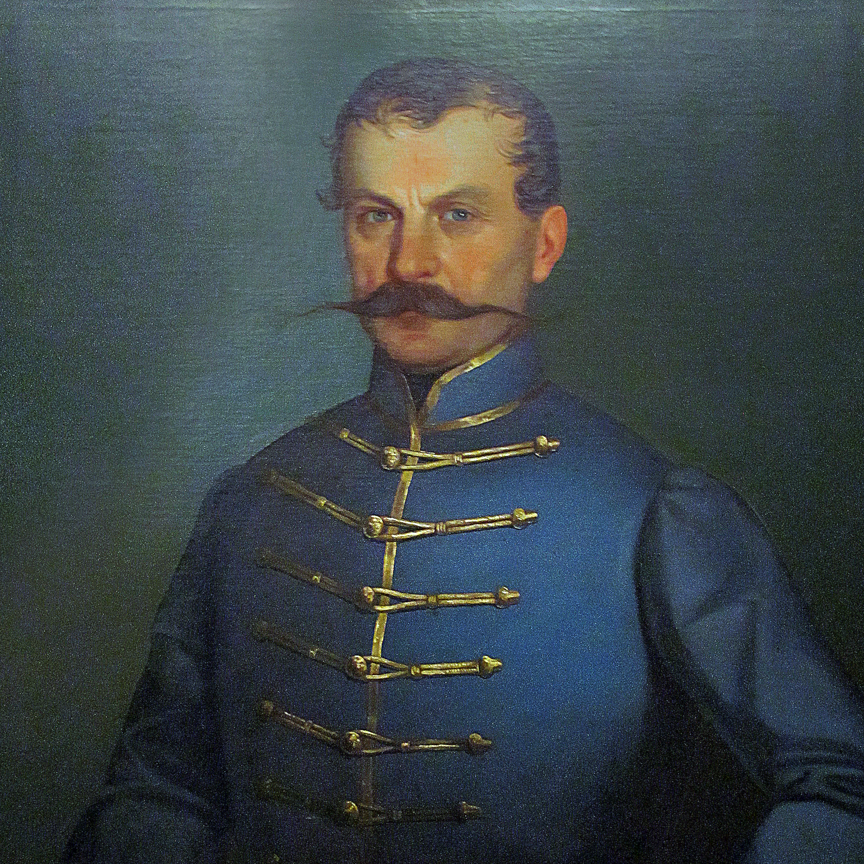 Stevča Mihailović (1804 – 1888), erbian politician and Prime Minister.